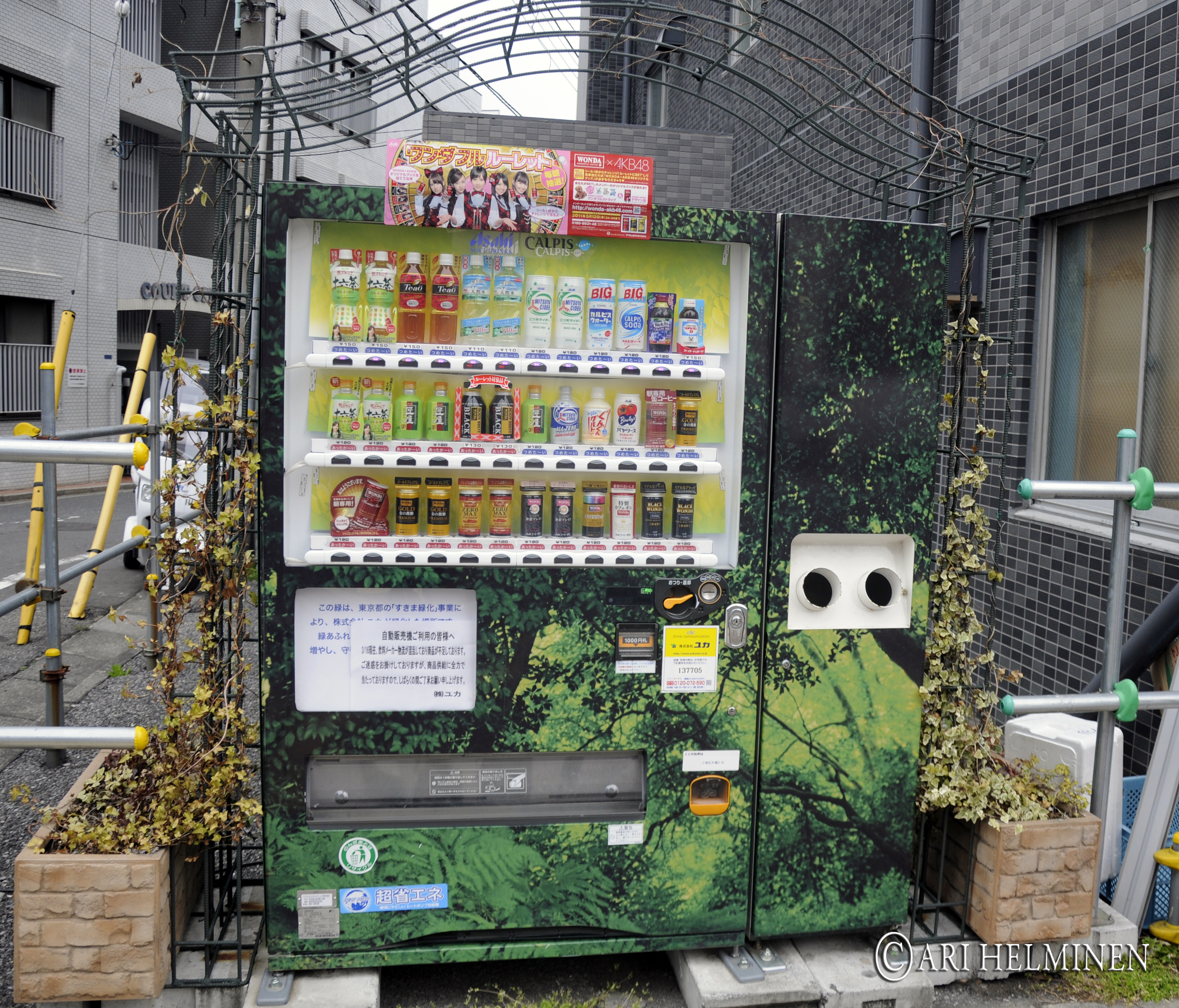 Hi these pictures I took yesterday when I got lost. you can see the hole story in my blog I hope you like my photos :)